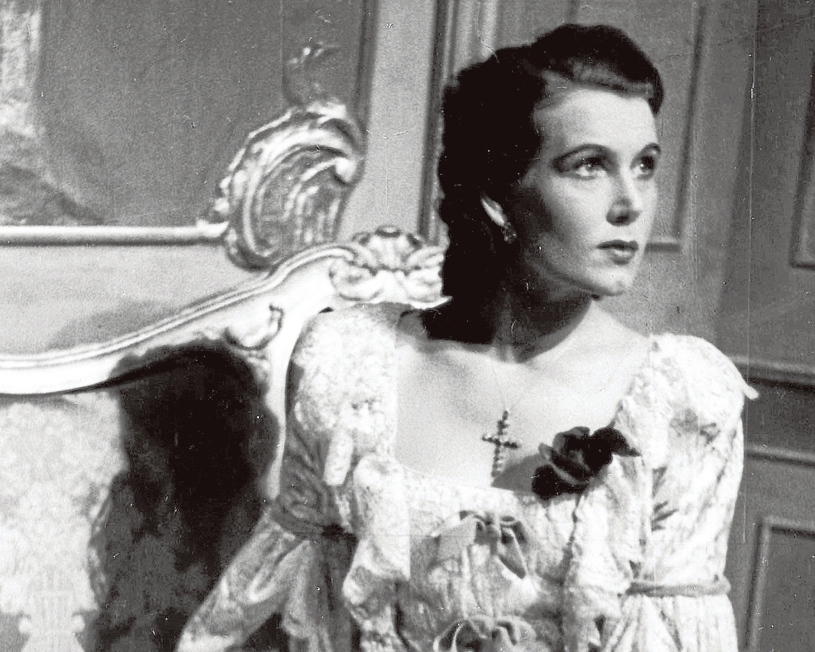 Photograph of the Finnish opera singer Aulikki Rautawaara (1906–1990) as the Countess from Le nozze di Figaro.